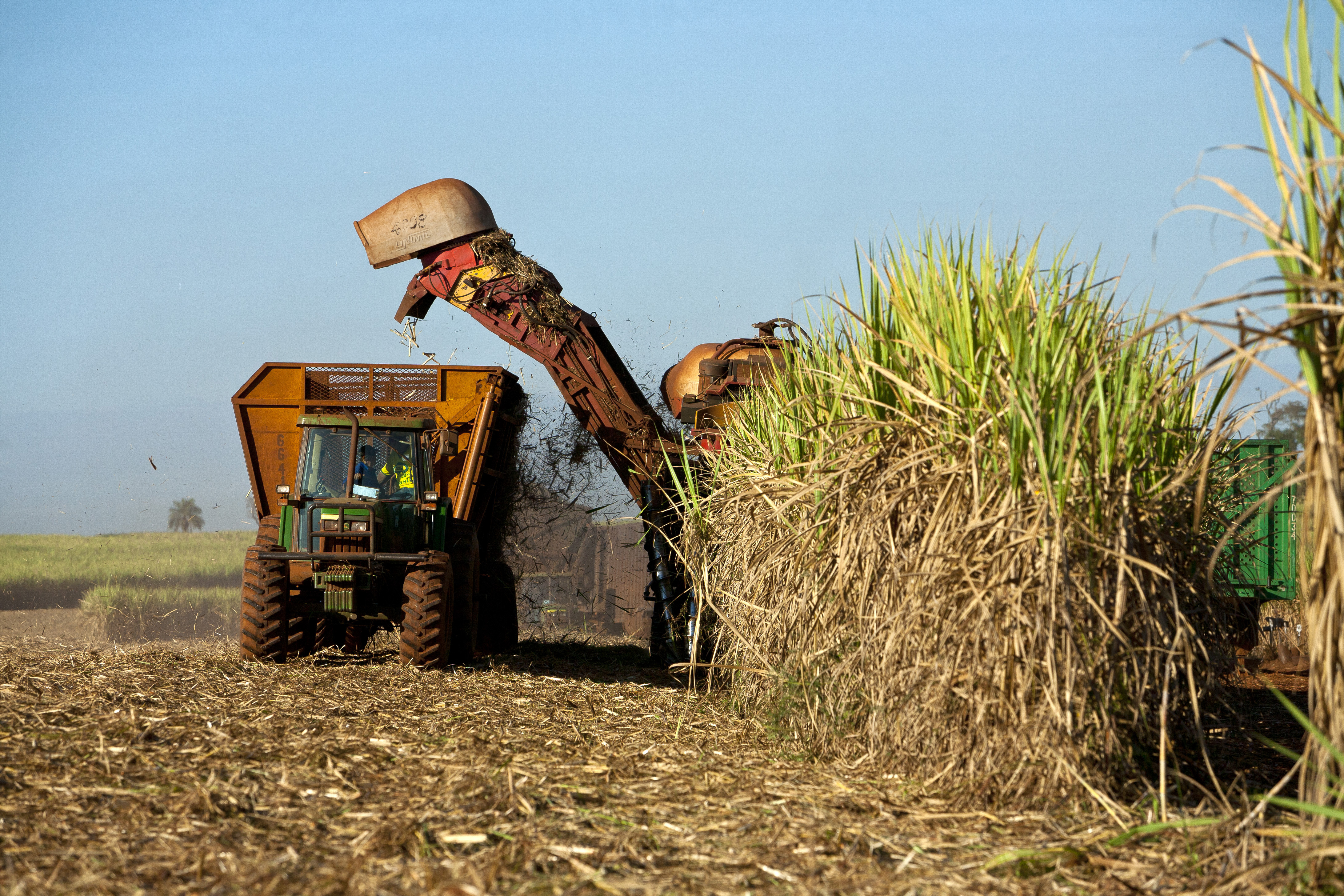 Harvesting SugarCane without Pre-Burn - notice the trashin abundance on the ground, which is then irrigated with Lease Water, that creates nutrients for the next generation crop